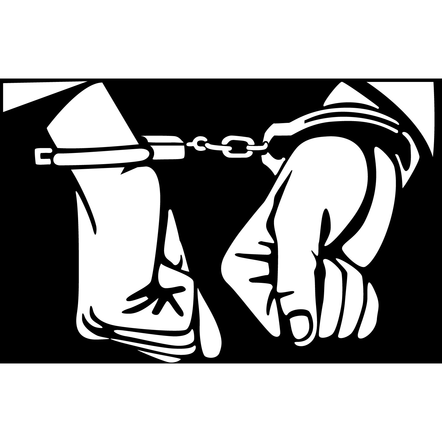 A line drawing of handcuffed hands. (A vector file may be downloaded here.)